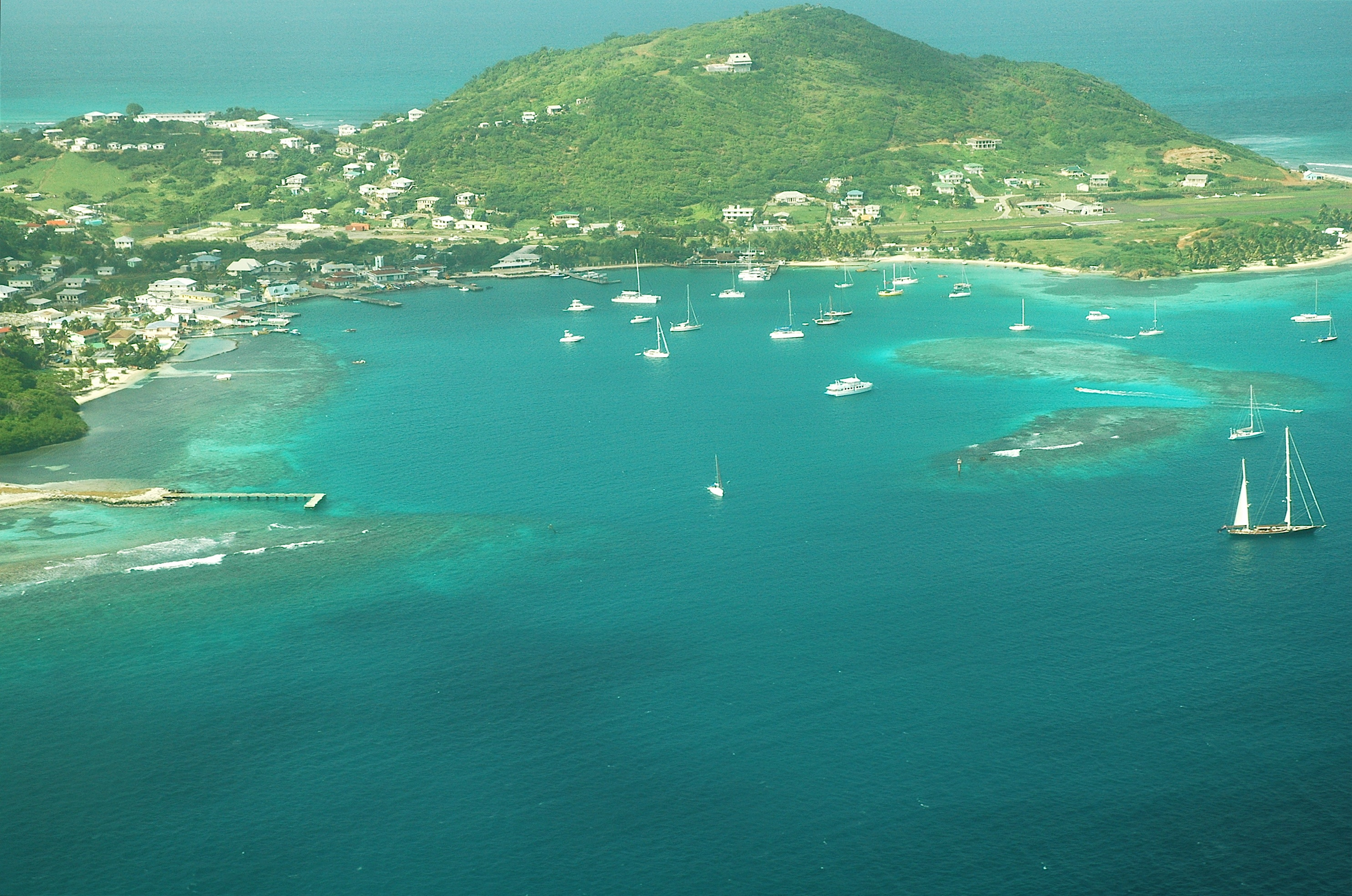 Aerial view of Clifton Harbour, Union Island, Saint Vincent and the Grenadines - looking West photo by Iain Grant, 2006 used in Union Island citation